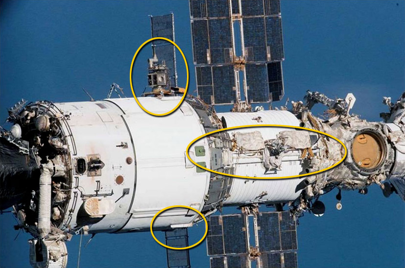 Areas of Expedition 25 EVA